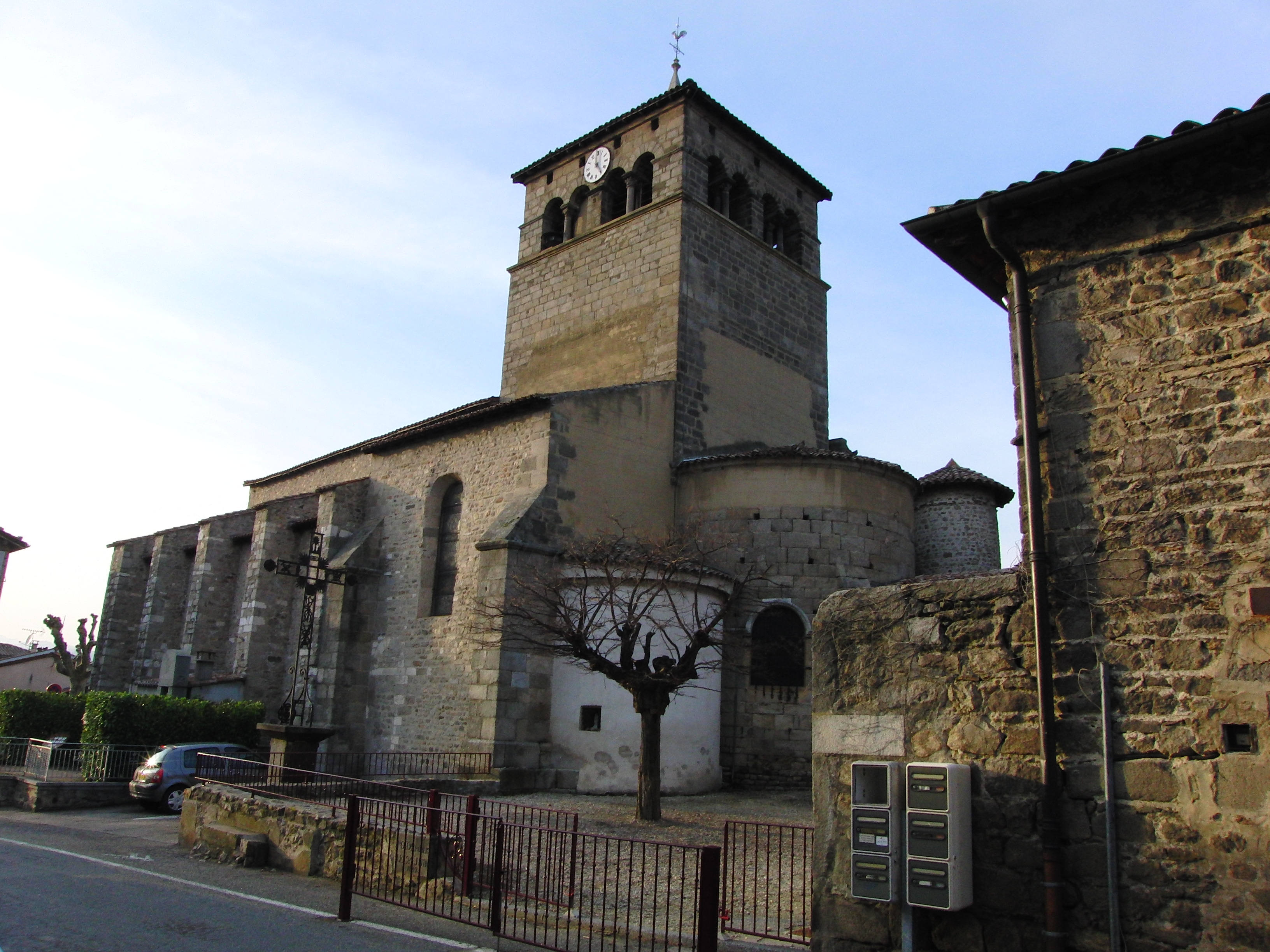 Taluyers church, back view, Rhône, France